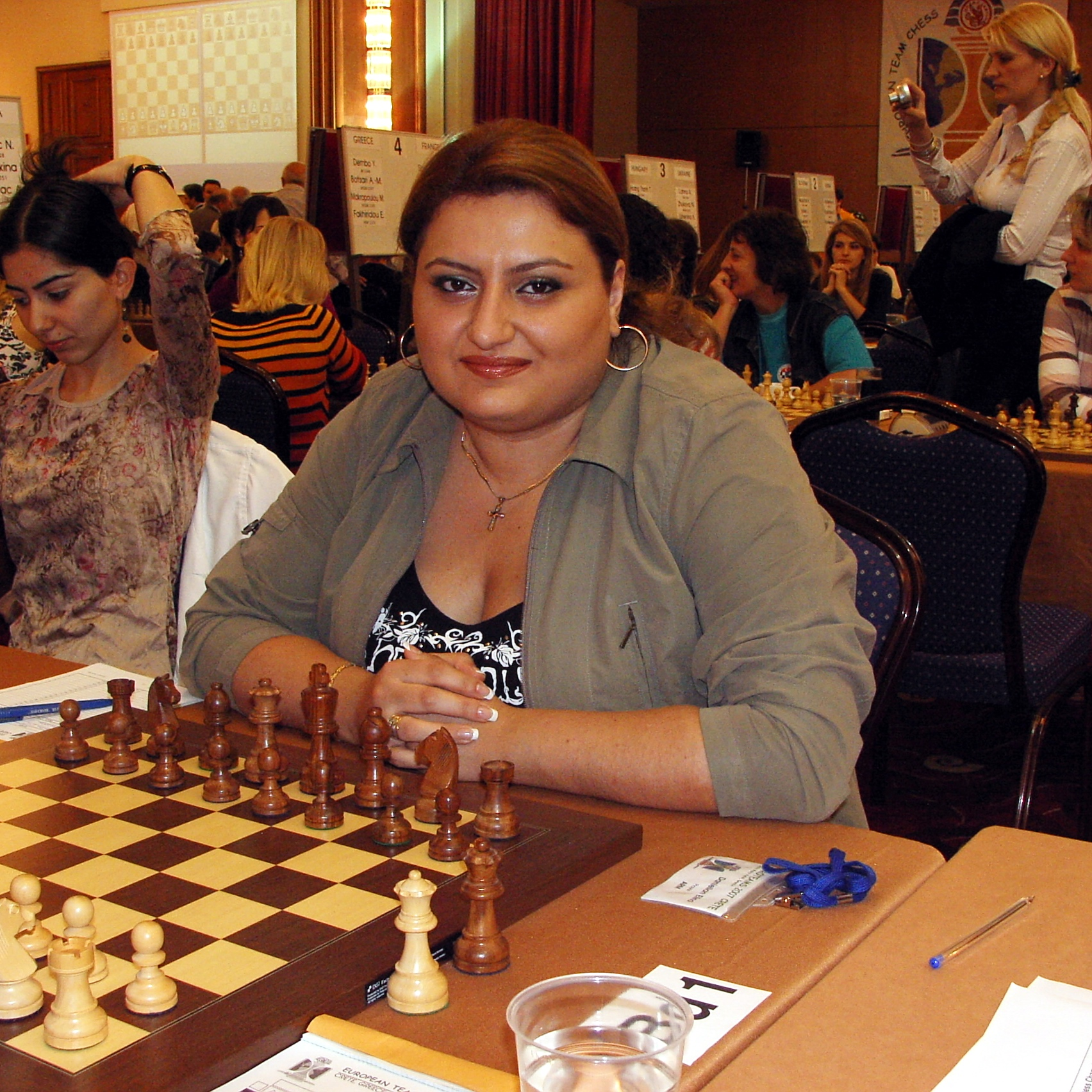 WGM Elina Danielian Armenia, EuroChess Iraklion 2007